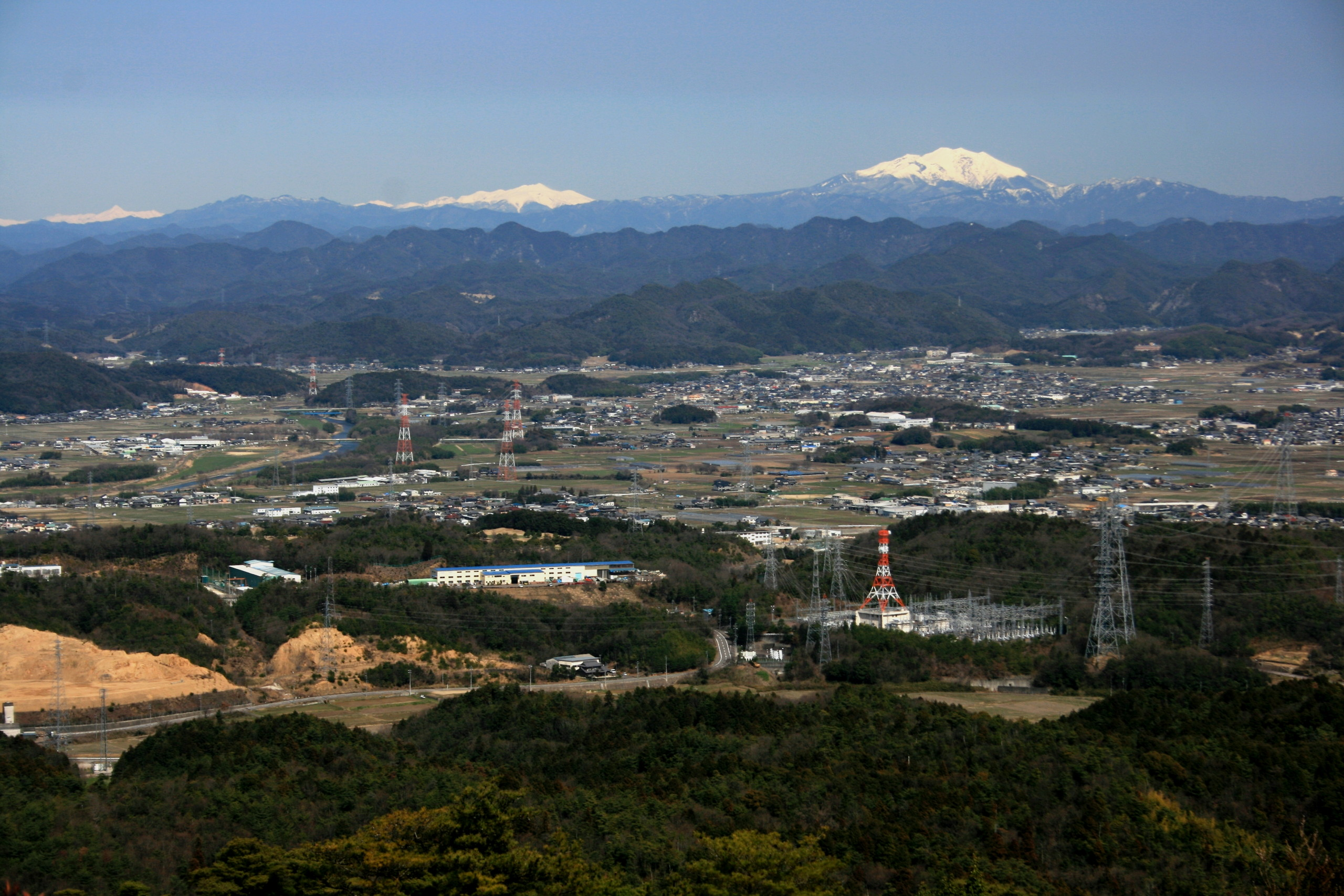 Mount Norikura and Mount Ontake from_Oiwa